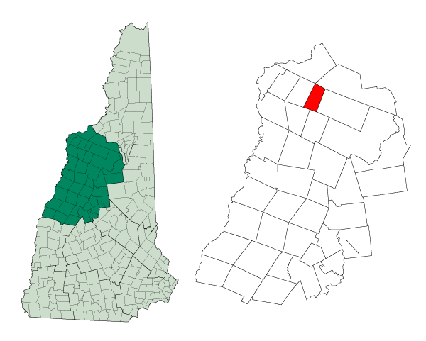 Map of a municipality in Belknap County, New Hampshire